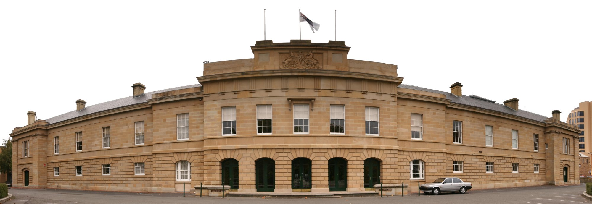 Parliament House, Hobart, Tasmania. Photo is a cropped version of a panorama created with a Canon EOS 350D camera.